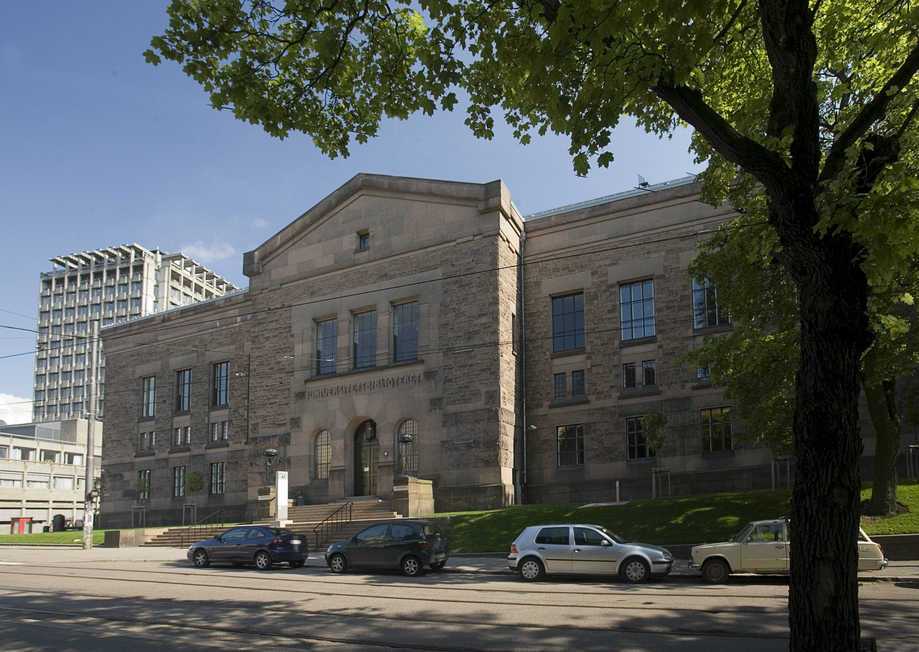 Tittel/Title: Nasjonalbiblioteket / National Library of Norway Motiv/Motif: Exterior of the National Library of Norway Dato/Date: 2005 Foto/Photographer: Ketil Born Sted/Place: Henrik Ibsens gate 110, Oslo Eier/Owner Institution: National Library of Norway